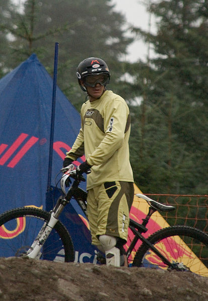 Brian Lopes scouting out the 4X course in Fort William during the 2007 UCI Mountain Bike and Trials World Championships.